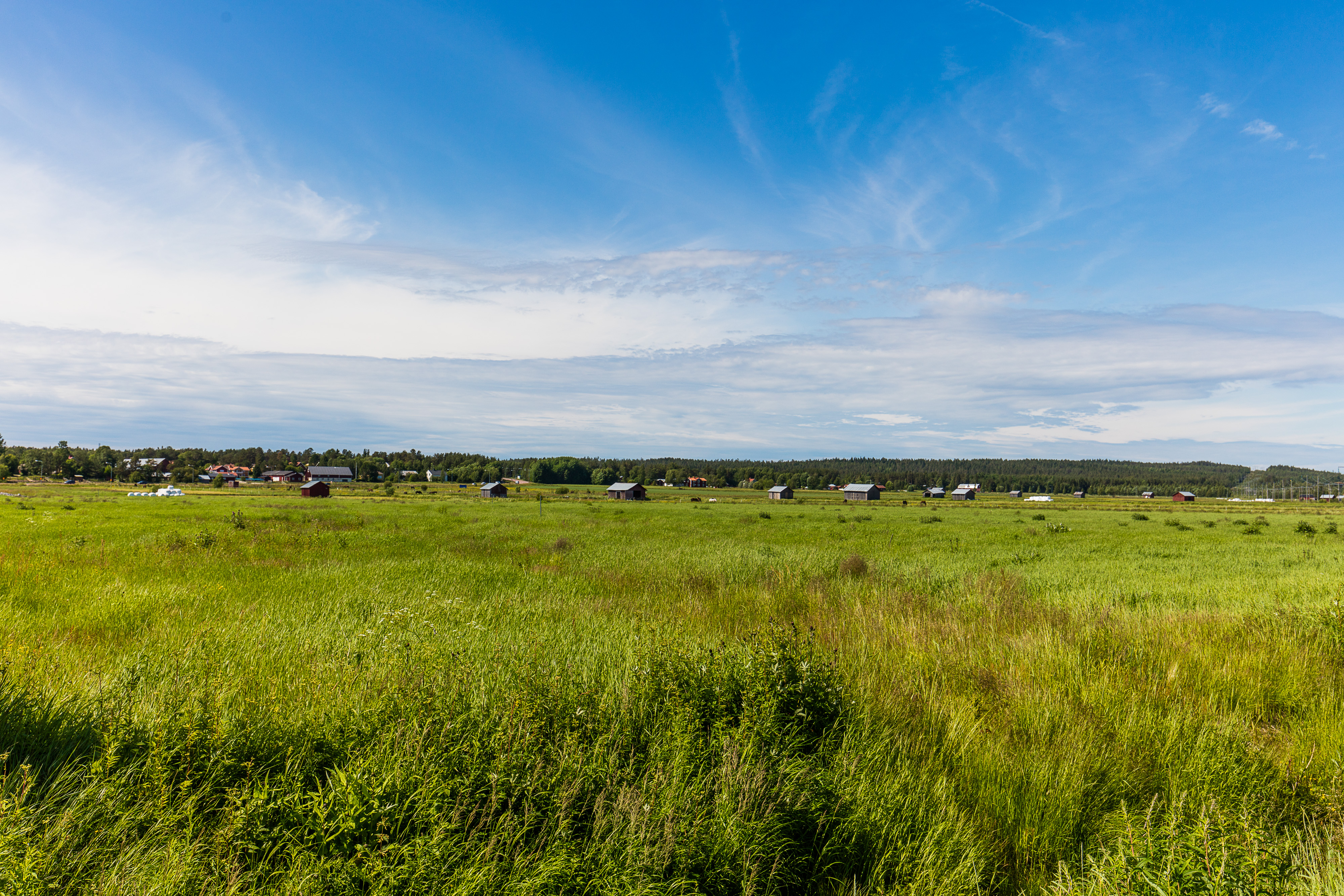 Röbäcksslätten, right south of Umeå, is the largest farming area in northern Sweden.